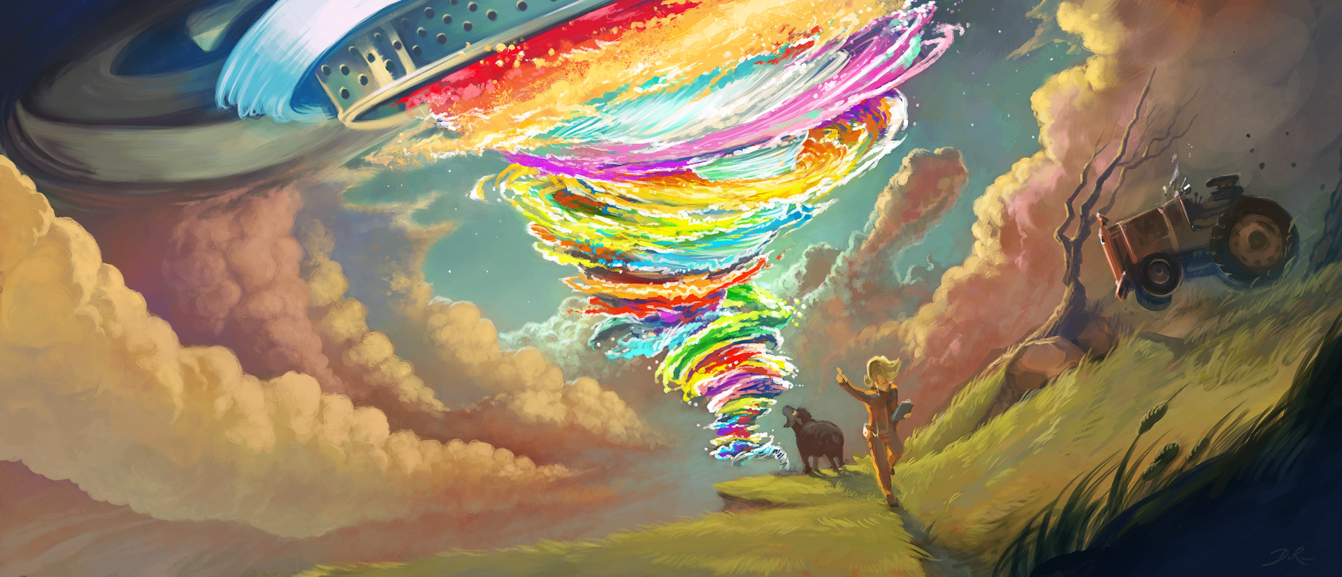 A scene from the film Cosmos Laundromat by the Blender Foundation